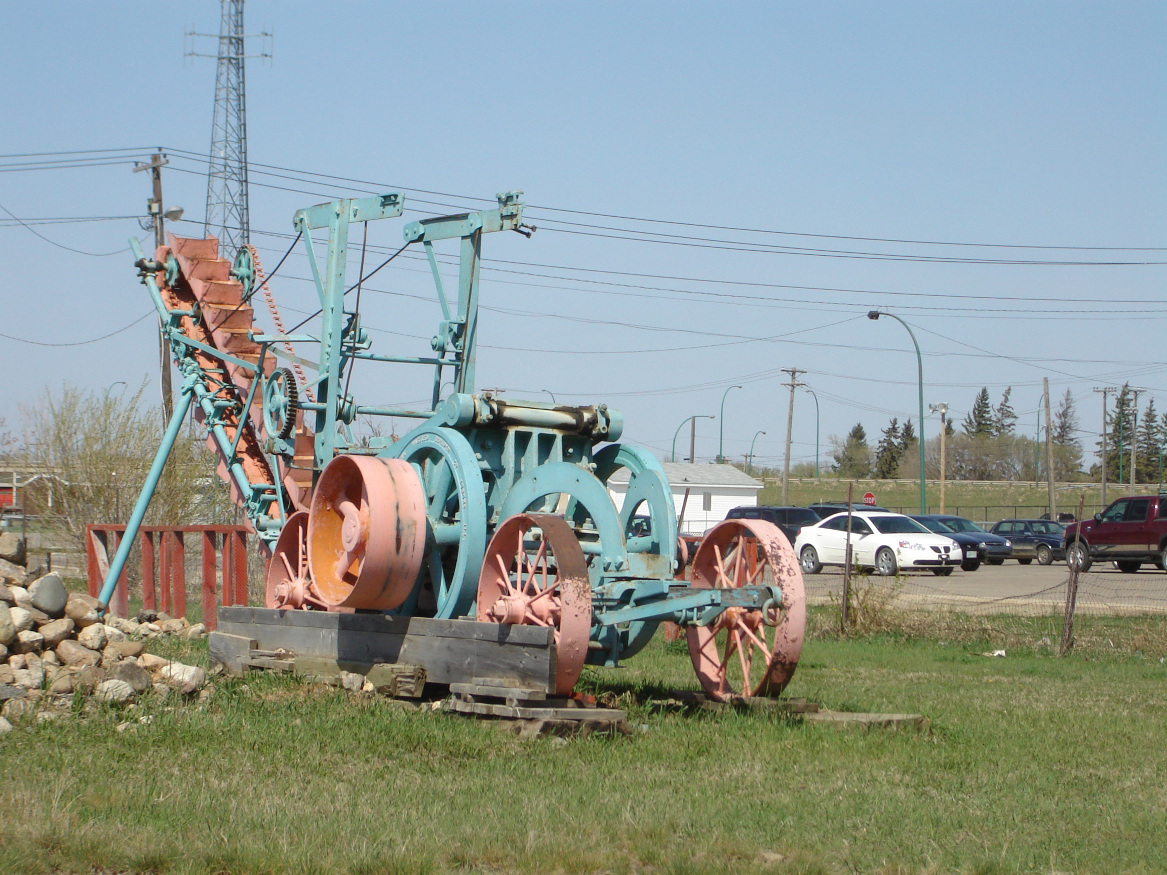 Rock picker. Prairieland Park, Saskatchewan Western Development Museum Exhibition, Saskatoon subdivision Saskatoon, Saskatchewan, Canada